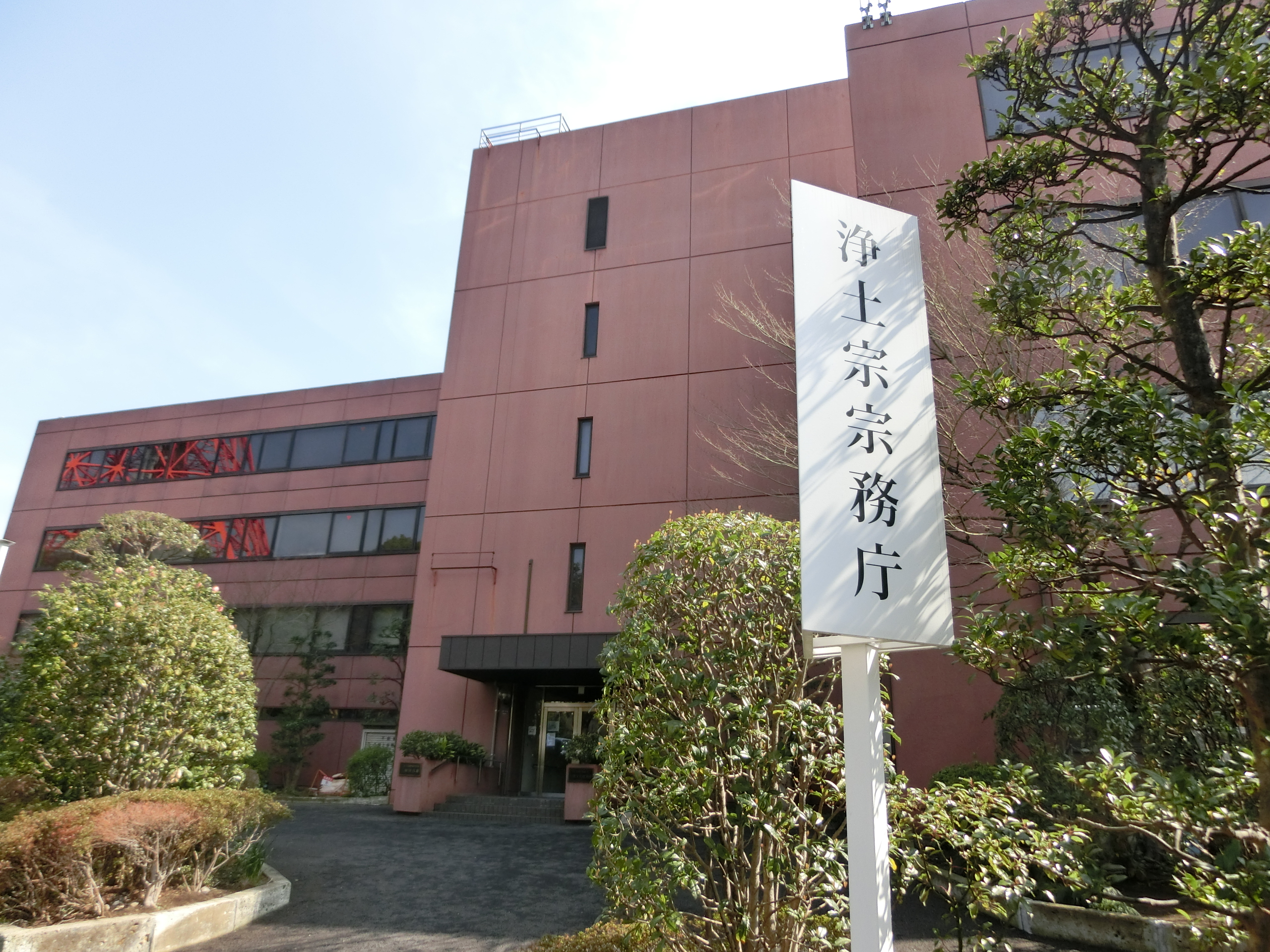 Meisho Kaikan